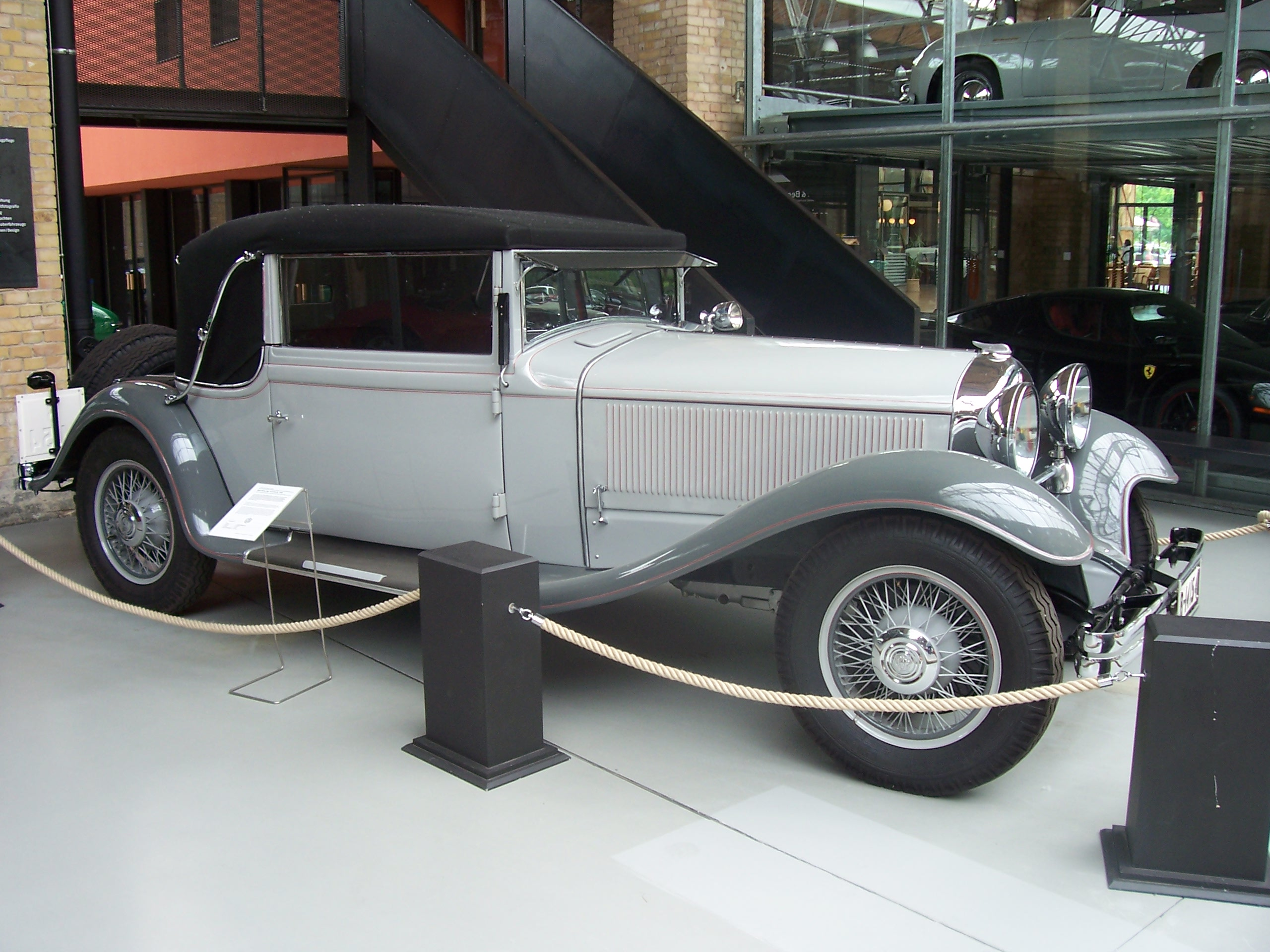 1930 NAG Protos Typ 14